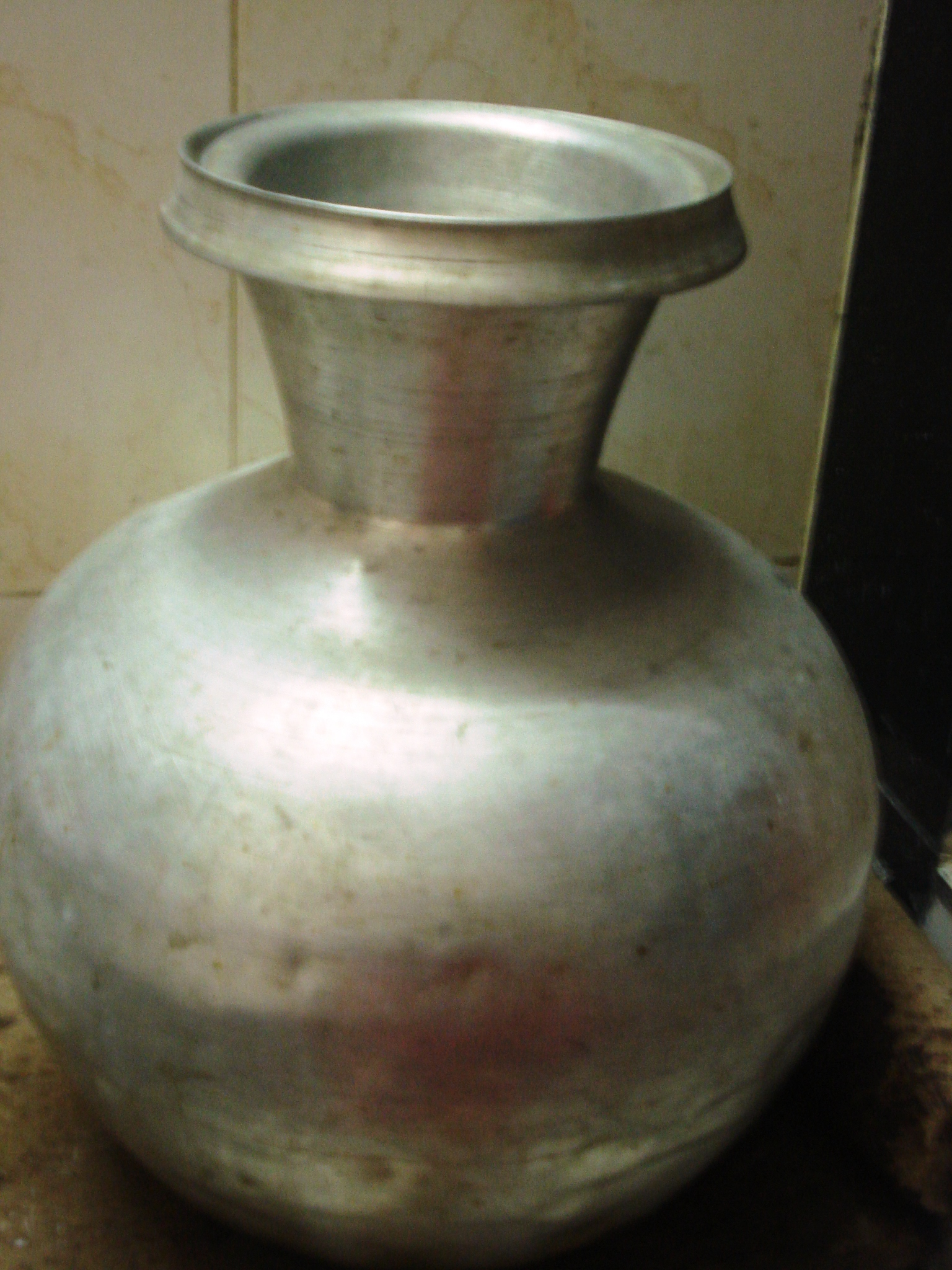 Picture of a pitcher taken from a kitchen in Bangladesh